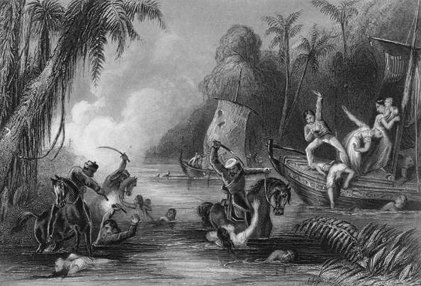 A contemporary engraving of the massacre at the Satichura Ghat, Siege of Cawnpore.